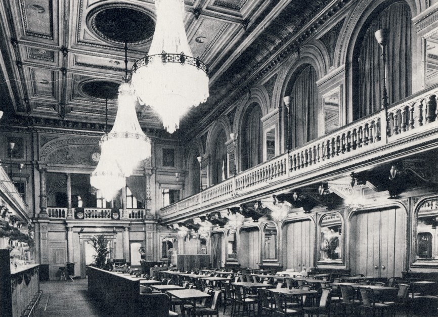 Berns salonger in Stockholm, image from 1890